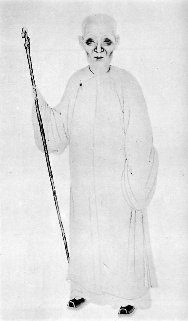 The Portrait of Shěn Déqián(沈德潛)